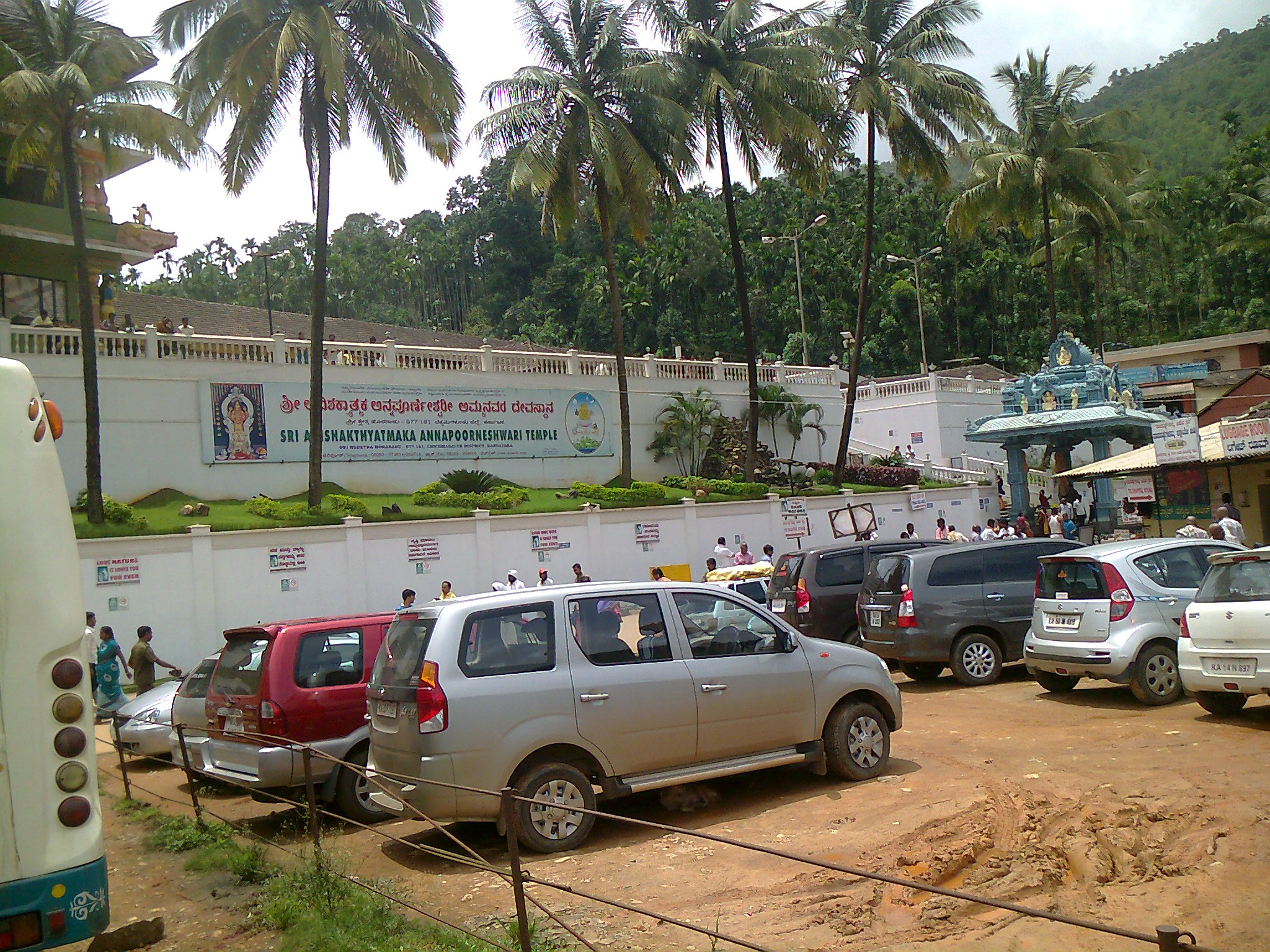 All visitors are given delicious food and free family accommodation by the temple trust. Visitors are so numerous that traffic blocks are common in the scenic road leading to the temple. This valley of coconut trees and paddy fields is surrounded by mountains on all the the three sides. The place is so beautiful that you will feel like reaching heaven.